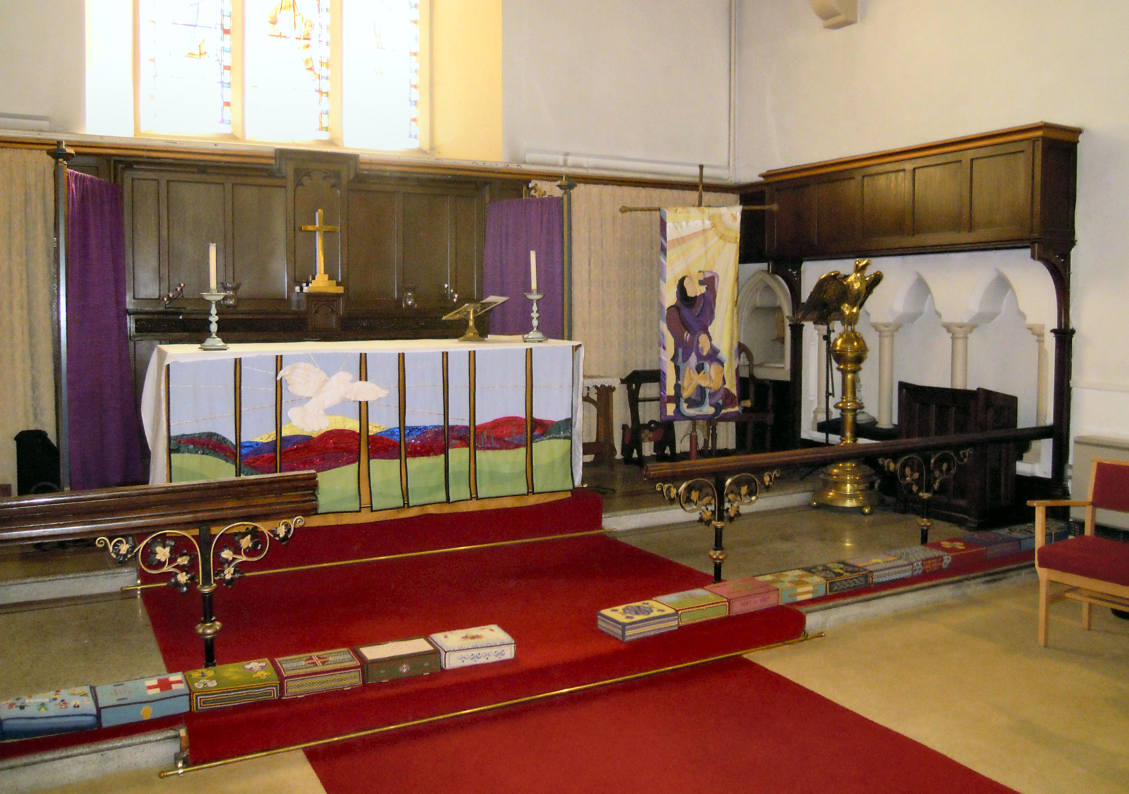 The altar and sanctuary at Church of St John the Baptist in Newport, Barnstaple, Devon